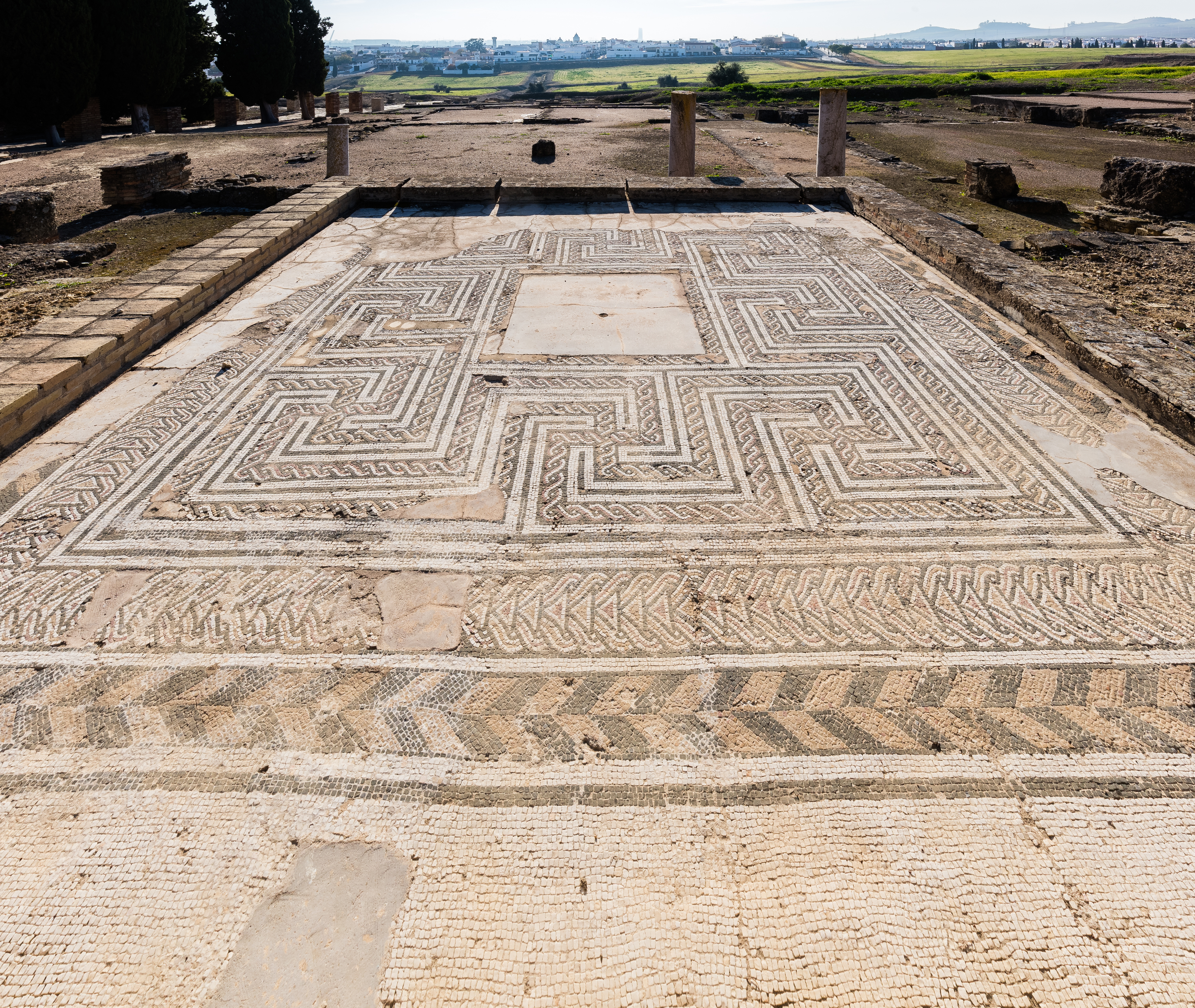 Mosaic of the Temple of Isis, ancient roman city of Itálica, Santiponce, Seville, Spain